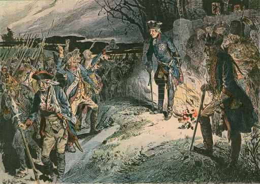 Frederick the Great (1712-1786) after defeat at the Battle of Hochkirch in 1758. Part of the Seven Years' War, the battle took place between Prussian and Austrian troops on 14 October 1758. Illustration from House of Hohenzollern in Pictures and Words by Carl Röchling and Richard Sternfeld. Published by Martin Oldenbourg in Berlin, c 1900.